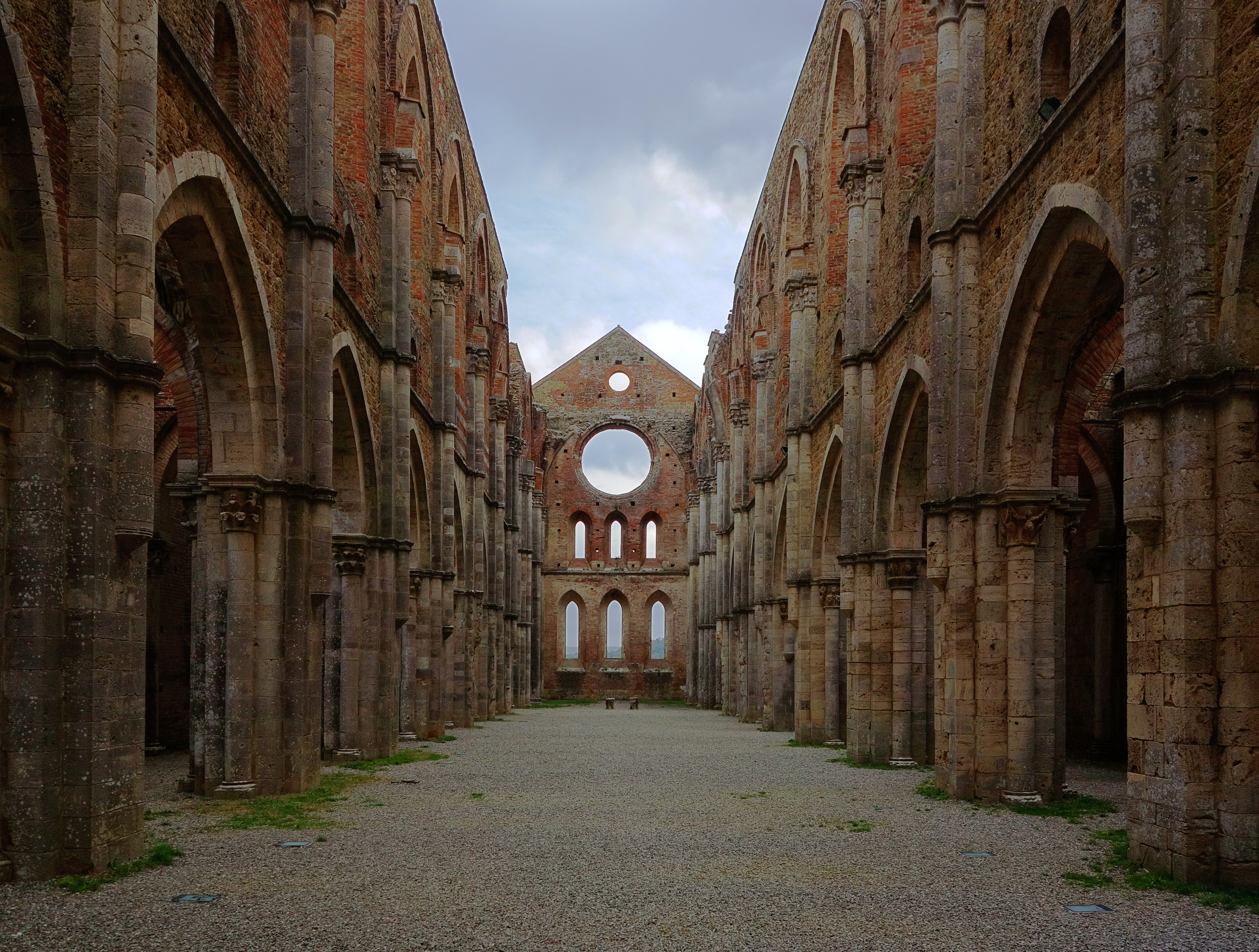 The interior of San Galgano Abbey as seen from its western end.